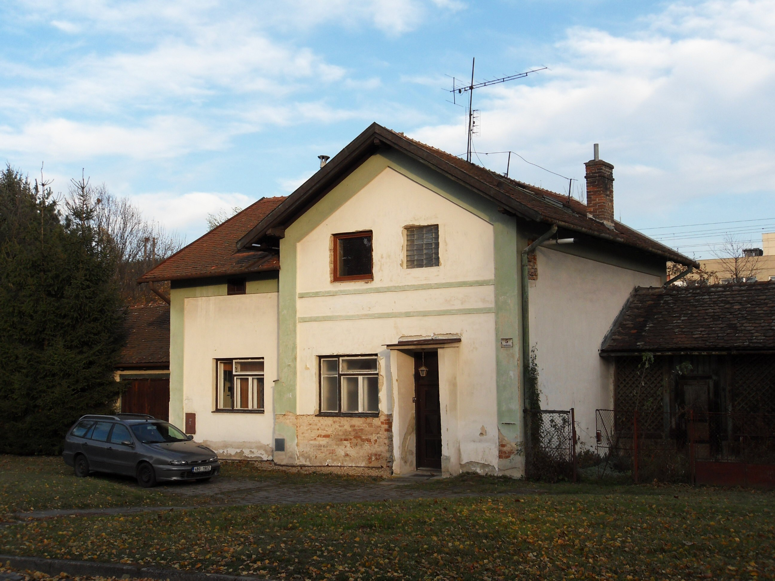 Former railway station Brno-Řečkovice, Brno, Czech Republic